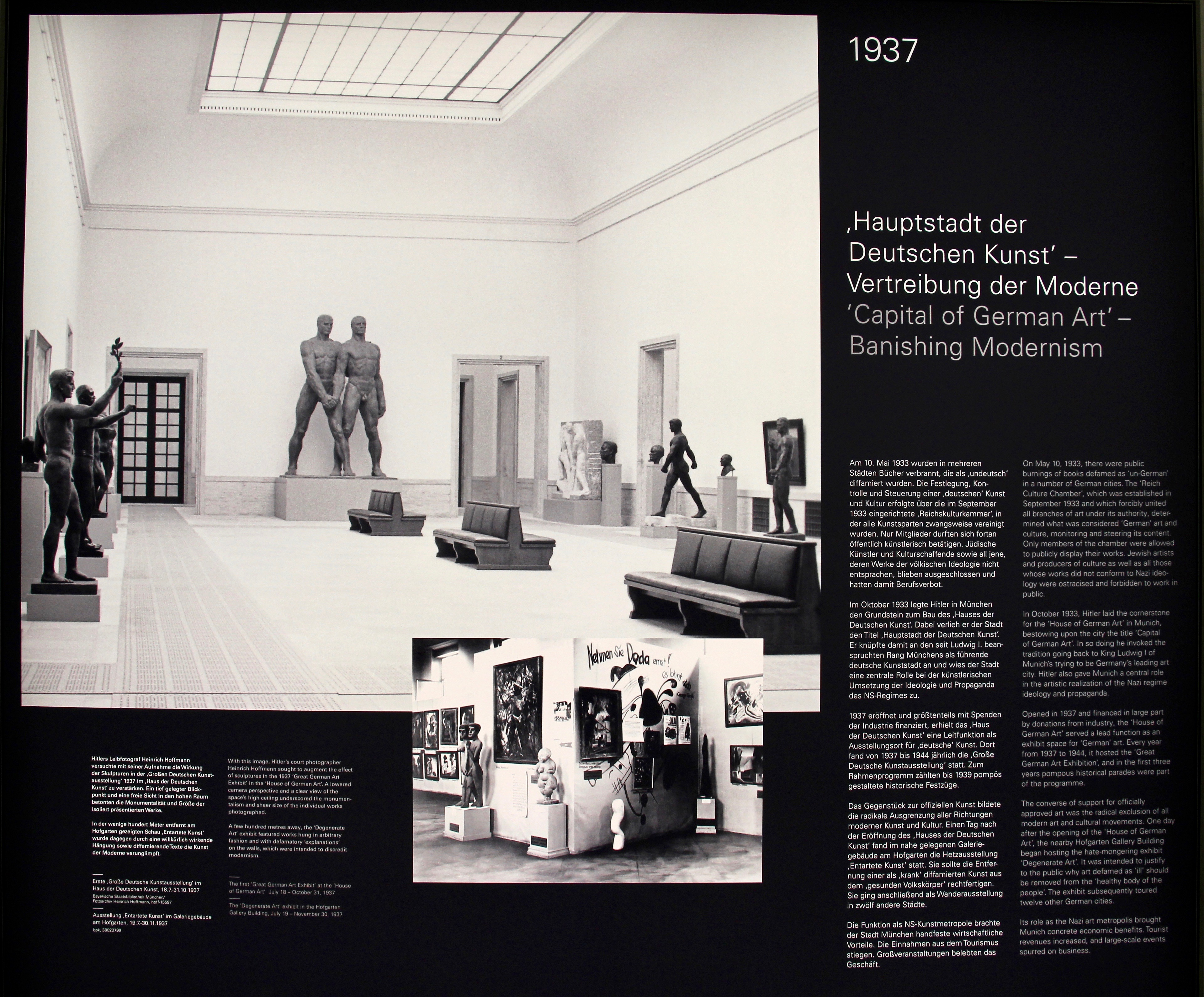 Cropped version of File:München - NS-Dokumentationszentrum (6).jpg Photographs from the art exhibitions Große Deutsche Kunstausstellung and Entartete Kunst in 1937 displayed at the Munich Documentation Centre for the History of National Socialism, a museum which focuses on the history of Munich and the rest of Bavaria during World War I, and World War II, especially the history and consequences of the Nazi regime and the role of Munich as Hauptstadt der Bewegung (′capital of the movement′). It is situated at the site of the former Brown House (Braunes Haus), the Nazi Party headquarters 1930 –1945.